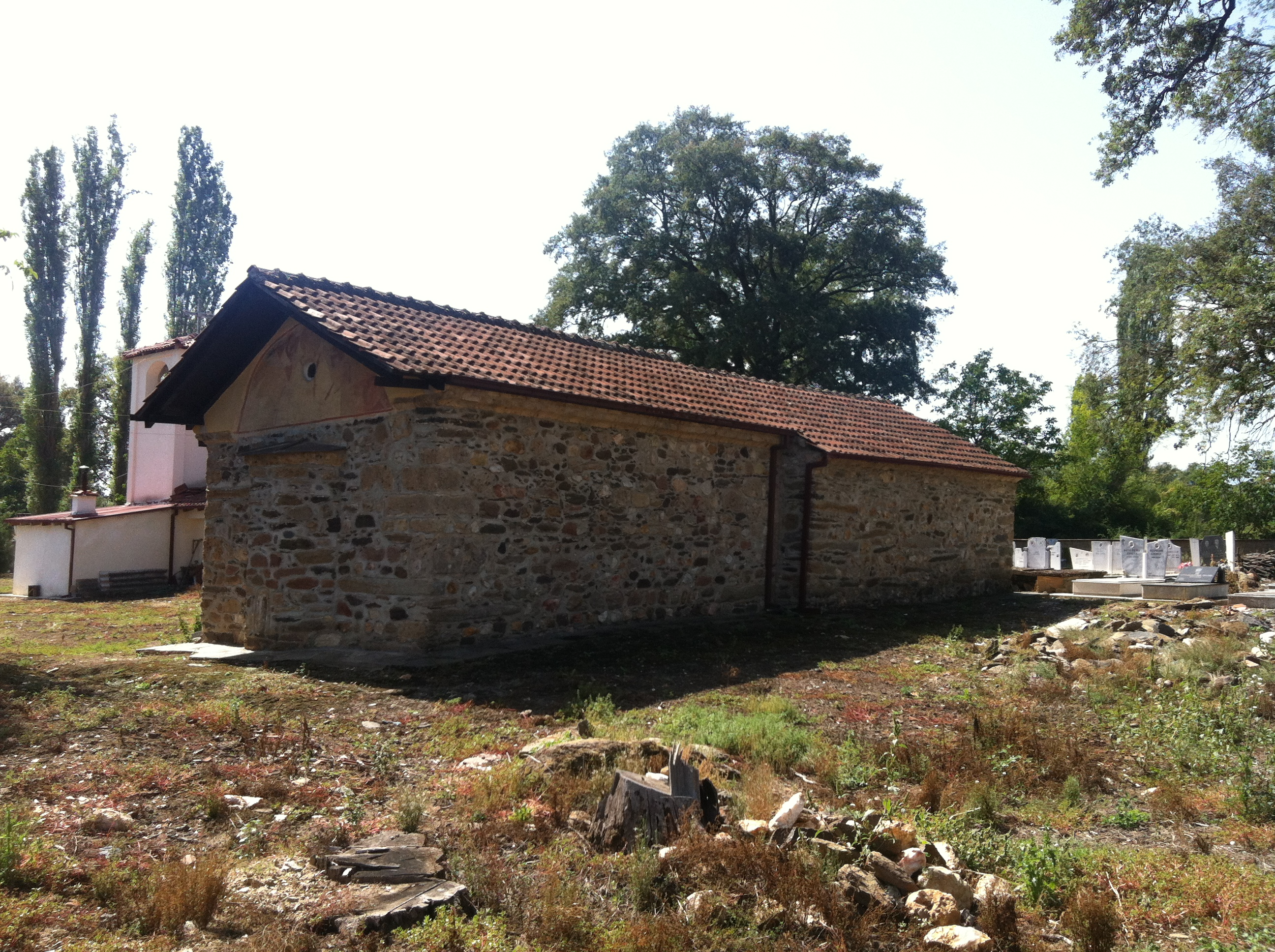 Nativity of the Theotokos Church in the village of Kostinci, near Prilep, Macedonia